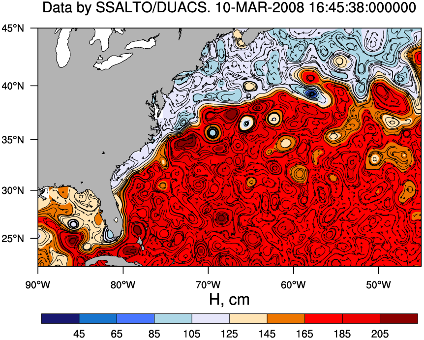 Sea surface height. Data from AVISO